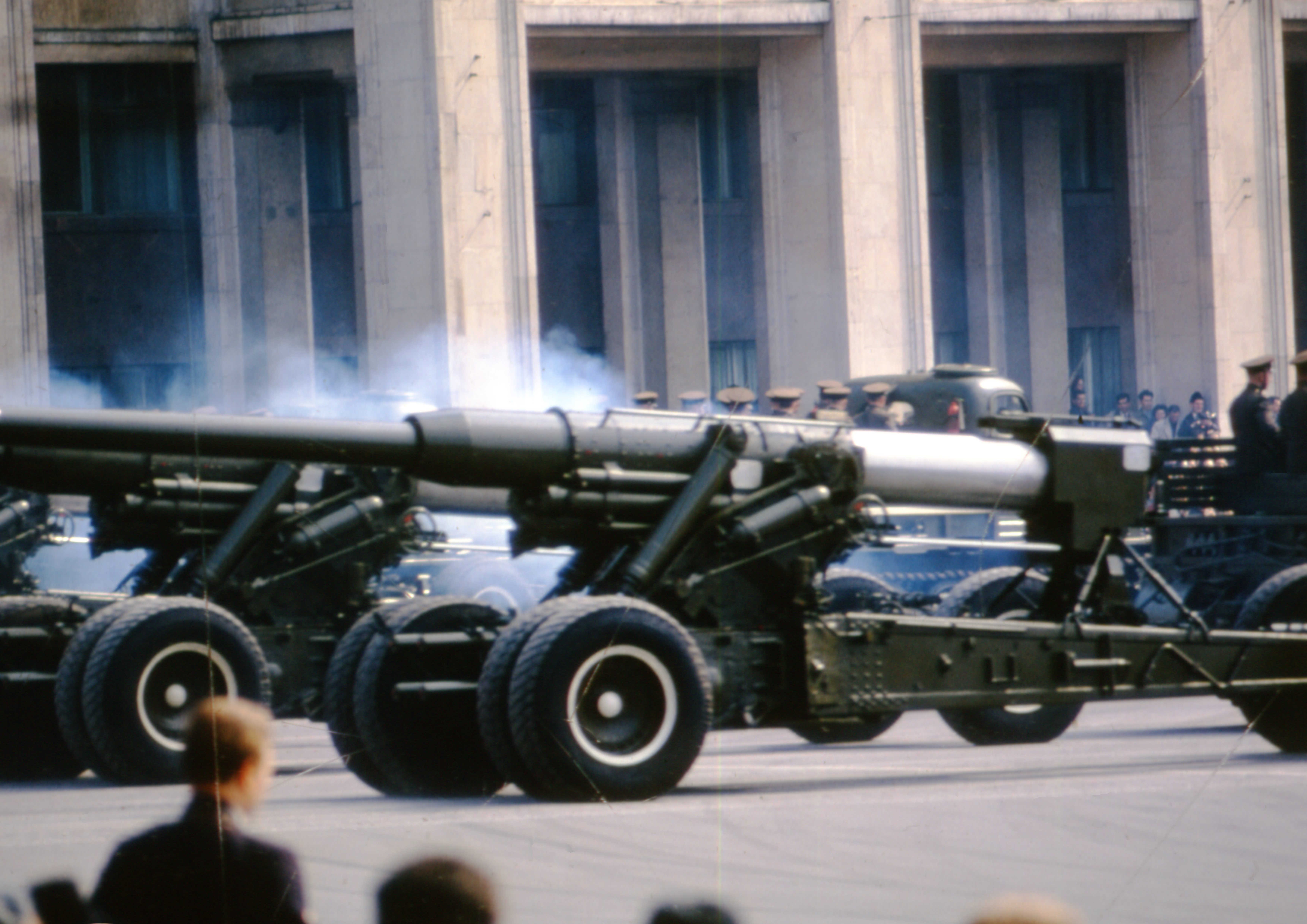 These images were taken on May 1st, 1964 to show Moscow's May Day Parade. They feature various views of people marching, military vehicles, and propaganda posters.